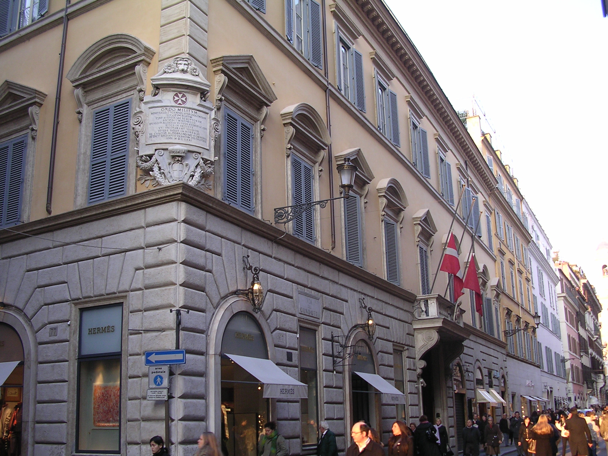 Palazzo di Malta, Via dei Condotti 68 Roma, headquarters of the Sovereign Military Order of Malta. Note the flags flying at half-staff after the death of the Grand Master Andrew Bertie